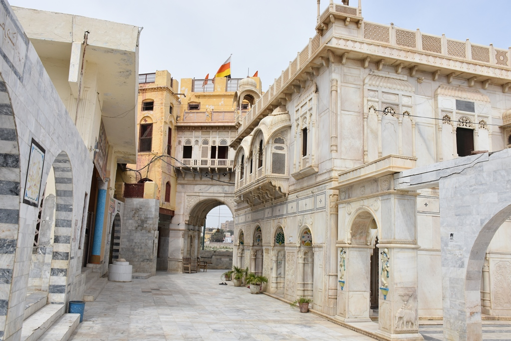 Hindu Temple This is a photo of a monument in Pakistan identified as the SD-U-29